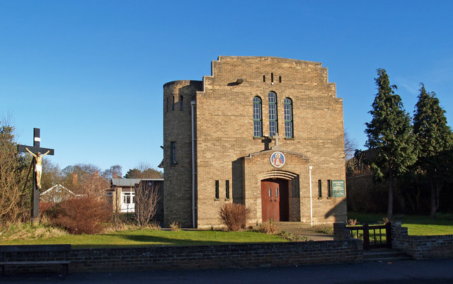 Roman Catholic Church of the Sacred Heart, Hornsea, East Riding of Yorkshire, England.Situated on Southgate and built in 1956 of yellow brick.